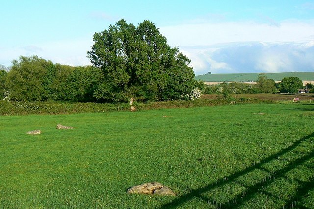 Stone circle, Day House Lane, Swindon Five stones make up this ancient site and all are visible in this image.